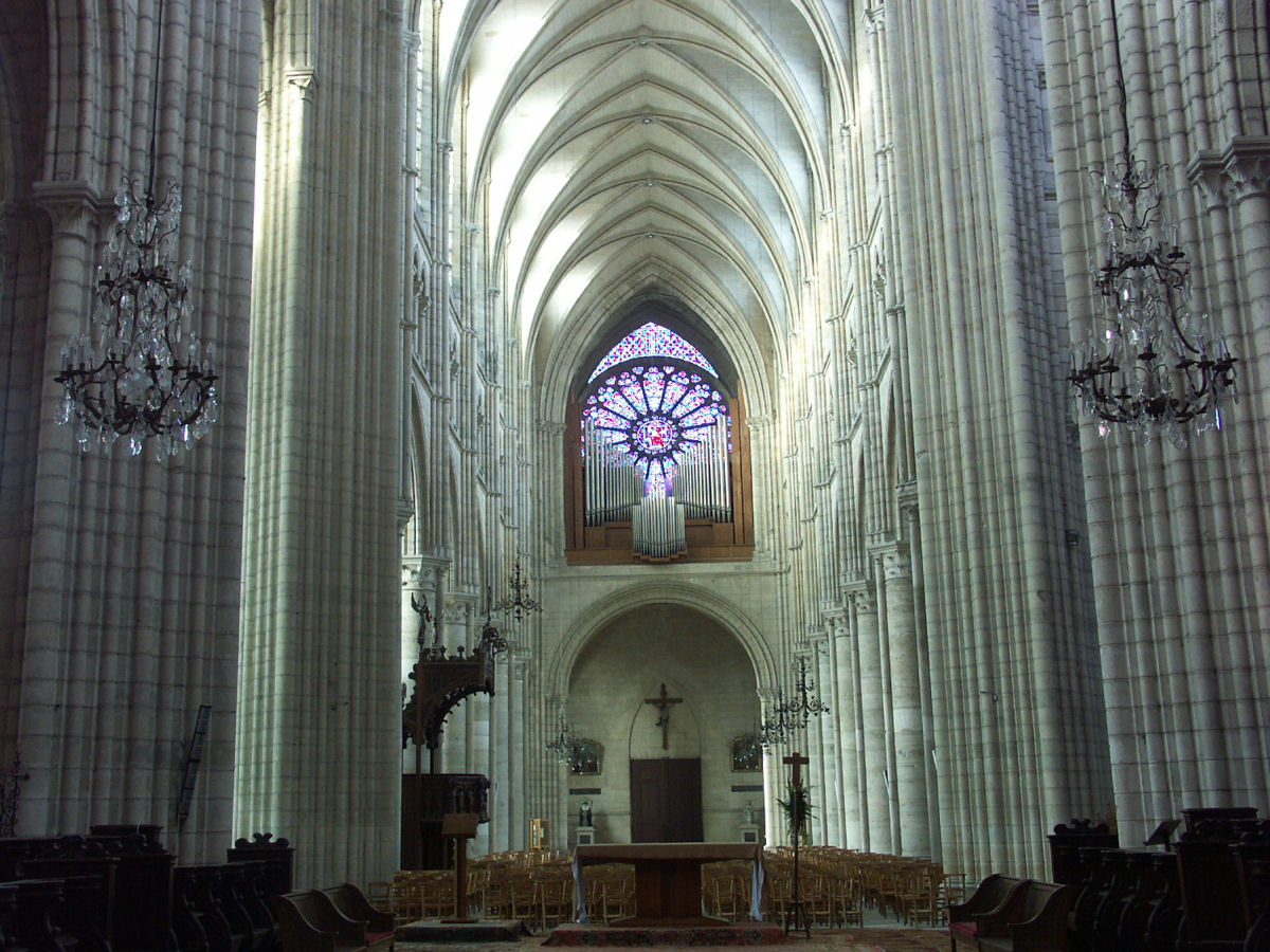 Cathédrale Saint-Gervais-et-Saint-Protais de Soissons, France - Nave looking toward the West Front